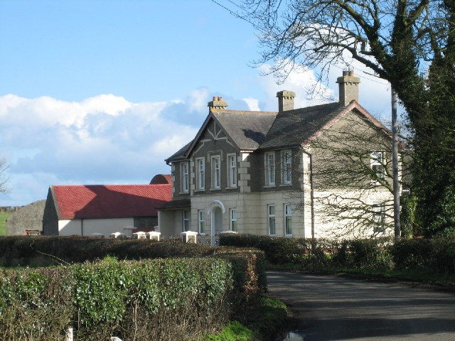 Farmstead. Farmhouse and outbuildings in Aghadrumglasny townland.